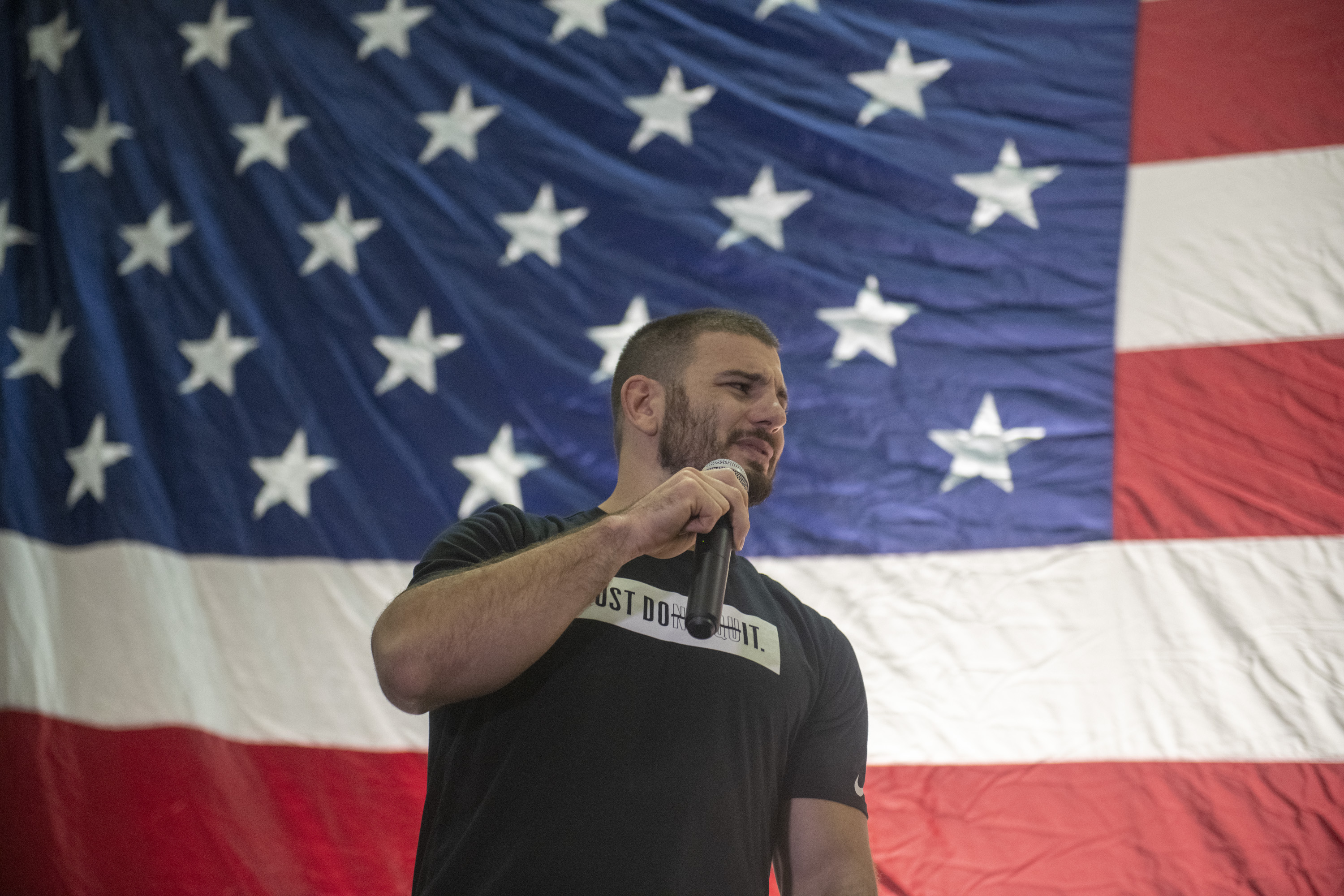 Marine Corps Gen. Joe Dunford, chairman of the Joint Chiefs of Staff, meets with deployed Sailors and Marines aboard the aircraft carrier USS John C. Stennis (CVN 74) in the Arabian Gulf, Dec. 23, 2018. Dunford, along with USO entertainers, visited service members who are away from home during the holidays at various locations. This year’s entertainers include actors Milo Ventimiglia, Wilmer Valderrama, DJ J Dayz, Fittest Man on Earth Matt Fraser, 3-time Olympic Gold Medalist Shaun White, Country Music Singer Kellie Pickler, and comedian Jessiemae Peluso. (DoD photo by Navy Petty Officer 1st Class Dominique A. Pineiro)